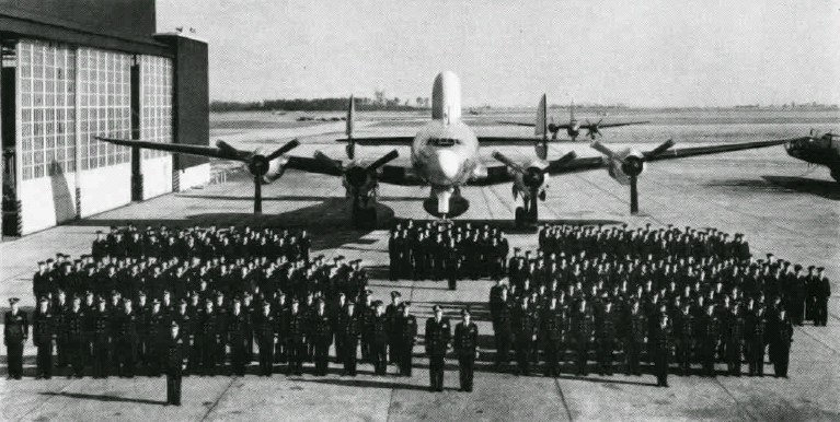 Photo of the commissioning of the Lockheed PO-1W Warning Star by the U.S. Navy air development squadron VX-4 Vanguards at Naval Air Station Patuxent River, Maryland (USA), circa 1949. In 1952 the PO-1W was redesignated WV-1. Note the smaller radome of the APS-20 radar below the fuselage compared to the production VW-2 (after 1962 EC-121K).